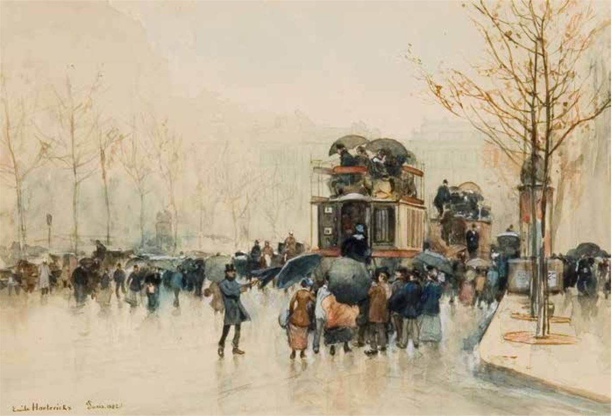 Painting by Emile Hoeterickx